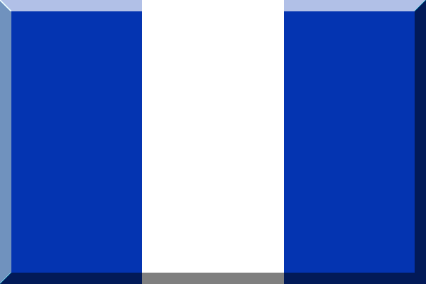 fantasy flag